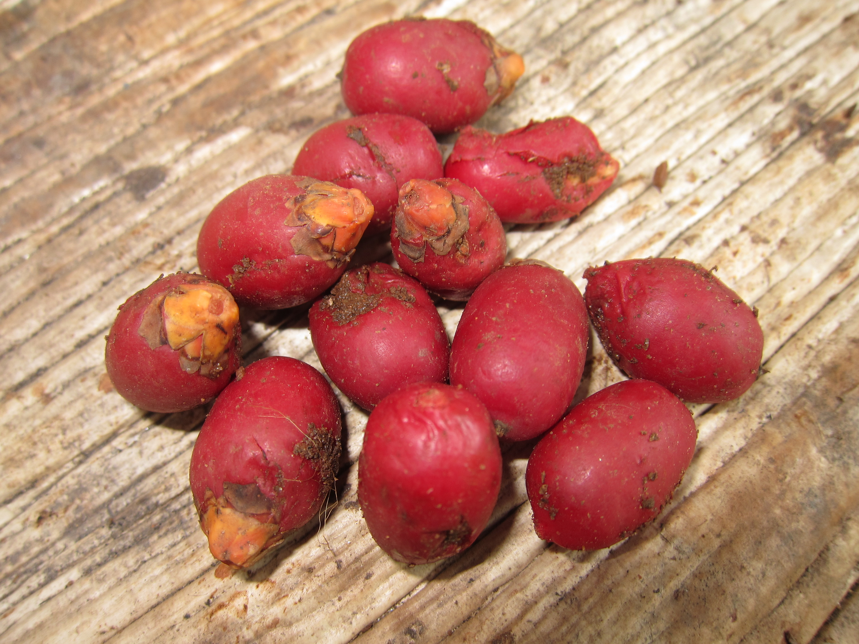 Mysore Areca Nut - Small in size